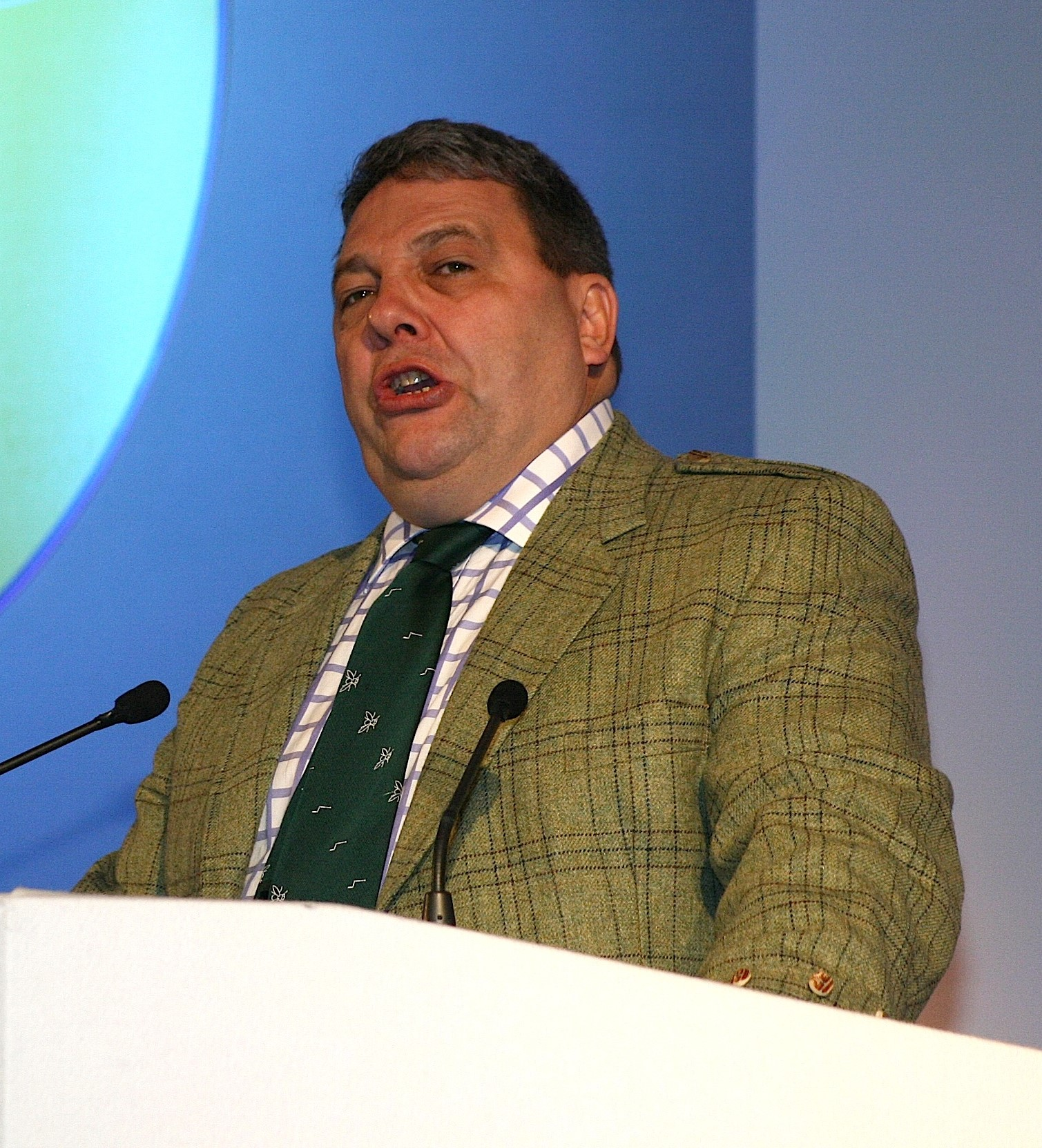 David Coburn MEP in 2014